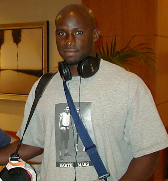 If used somewhere other than Wikipedia, Nelson, by name.